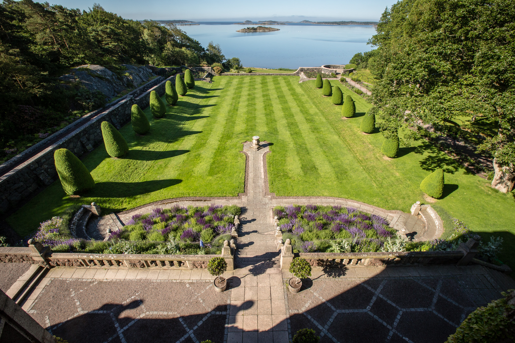 View from the writing room balcony.